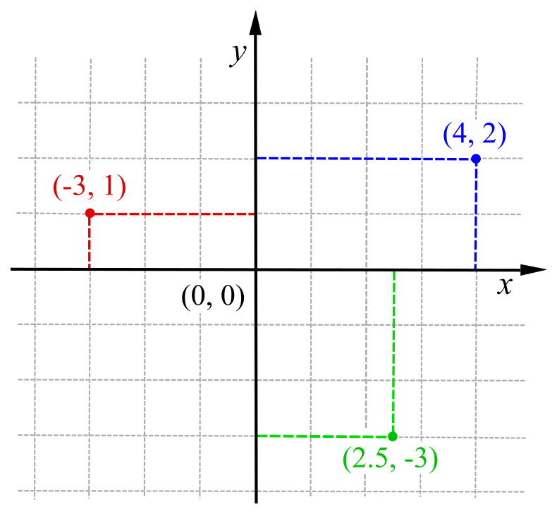 Cartesian coordinate system